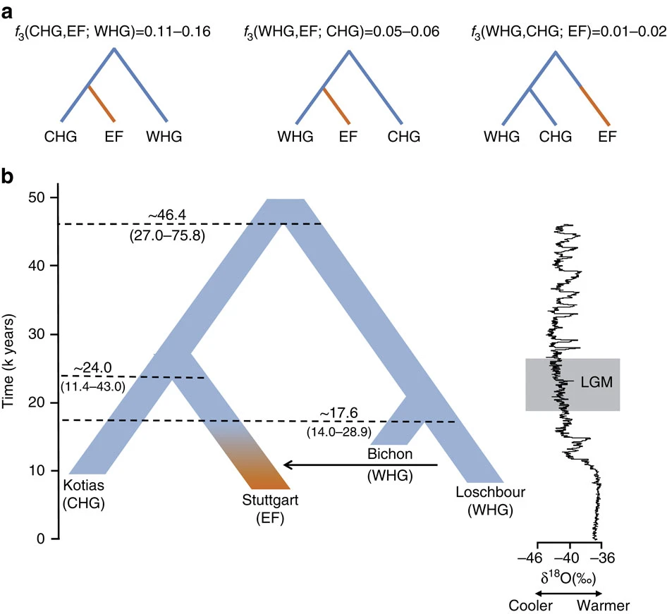 Fig. 2. (a). Alternative phylogenies relating western hunter-gatherers (WHG), CHG and early farmers (EF, highlighted in orange), with the appropriate outgroup f3-statistics. (b). The best supported relationship among CHG (Kotias), WHG (Bichon, Loschbour), and EF (Stuttgart), with split times estimates using G-Phocs. Oxygen 18 values (per mile) from the NGRIP core provide the climatic context; the grey box shows the extent of the Last Glacial Maximum (LGM).